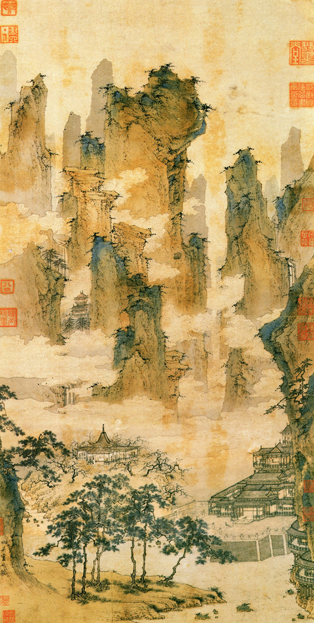 Pavilions in the Mountains of the Immortals by Qiu Ying,hanging scroll,ink and light colors on paper